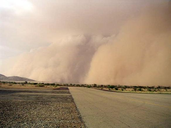 Incomming sand storm (haboob), Abéché airport, Chad